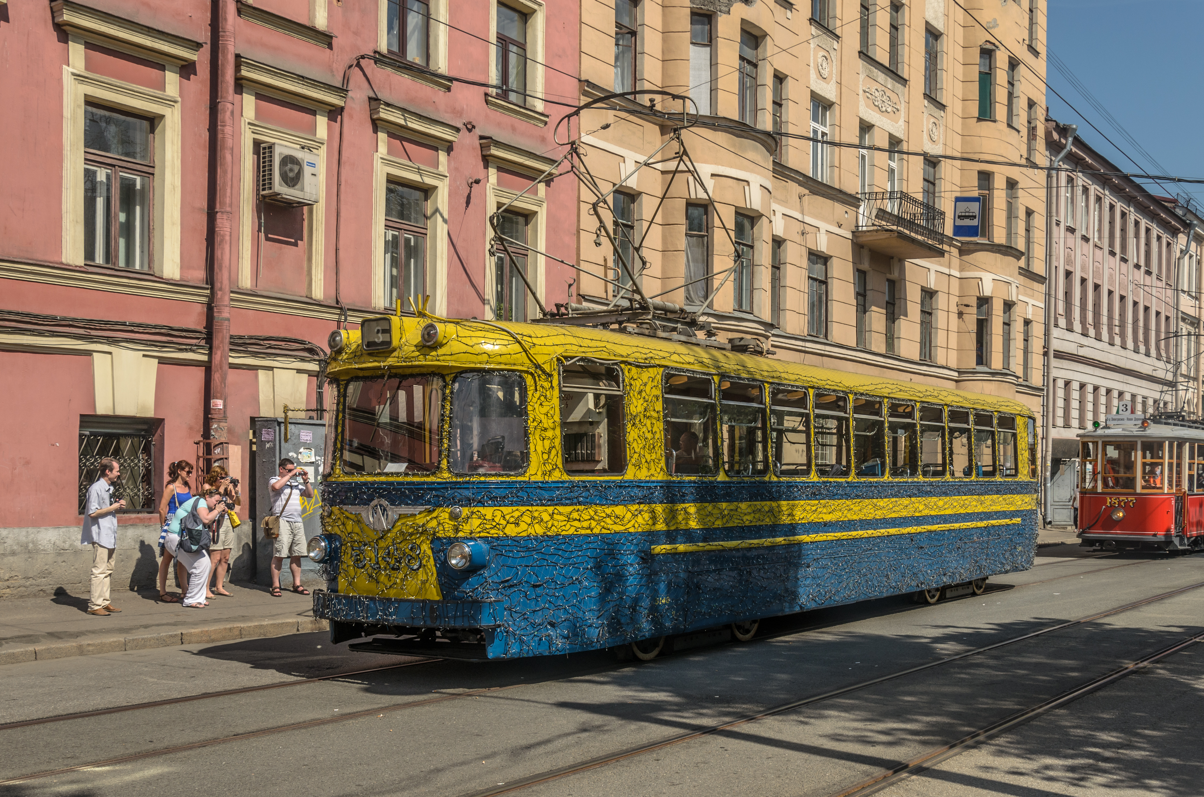 Tram LM-57 at Repina Square in Saint Petersburg